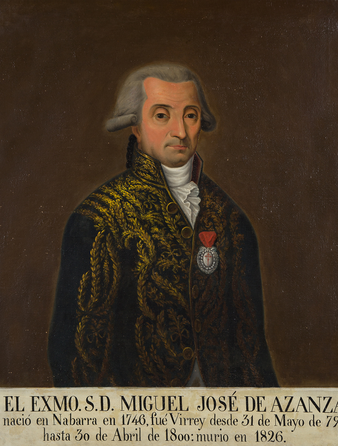 Viceroy Miguel José de Azanza